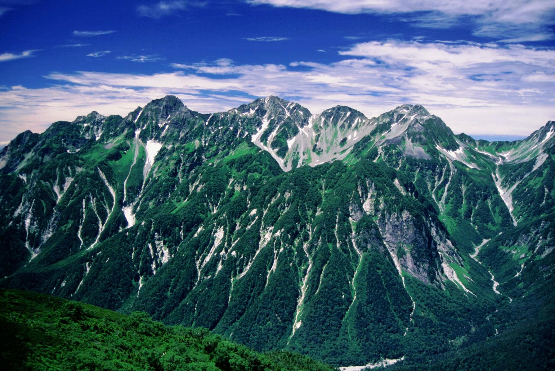 Mount Hotaka from_Cyogatake